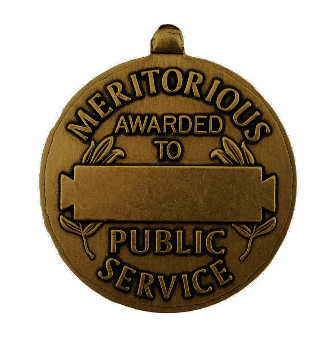 Reverse of File:US Navy Meritorious Public Service Medal.jpg. The Navy Meritorious Public Service Award is an award presented by the U.S. Secretary of the Navy to civilians. It is the third highest recognition that the Navy may pay to a civilian not employed by the Department of the Navy.